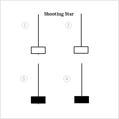 Shooting Star (Candlestick pattern)